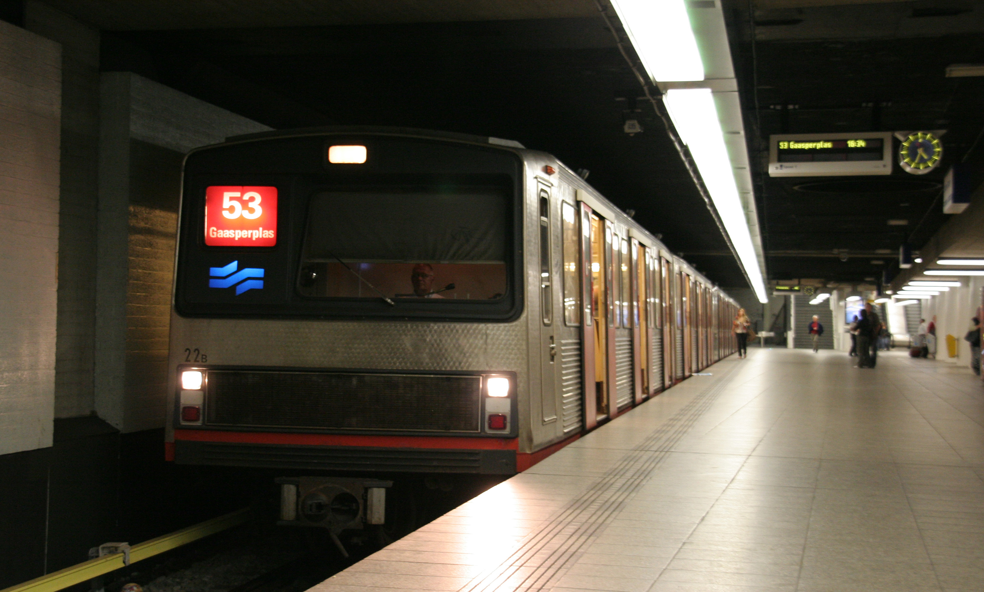 Metro of Amsterdam